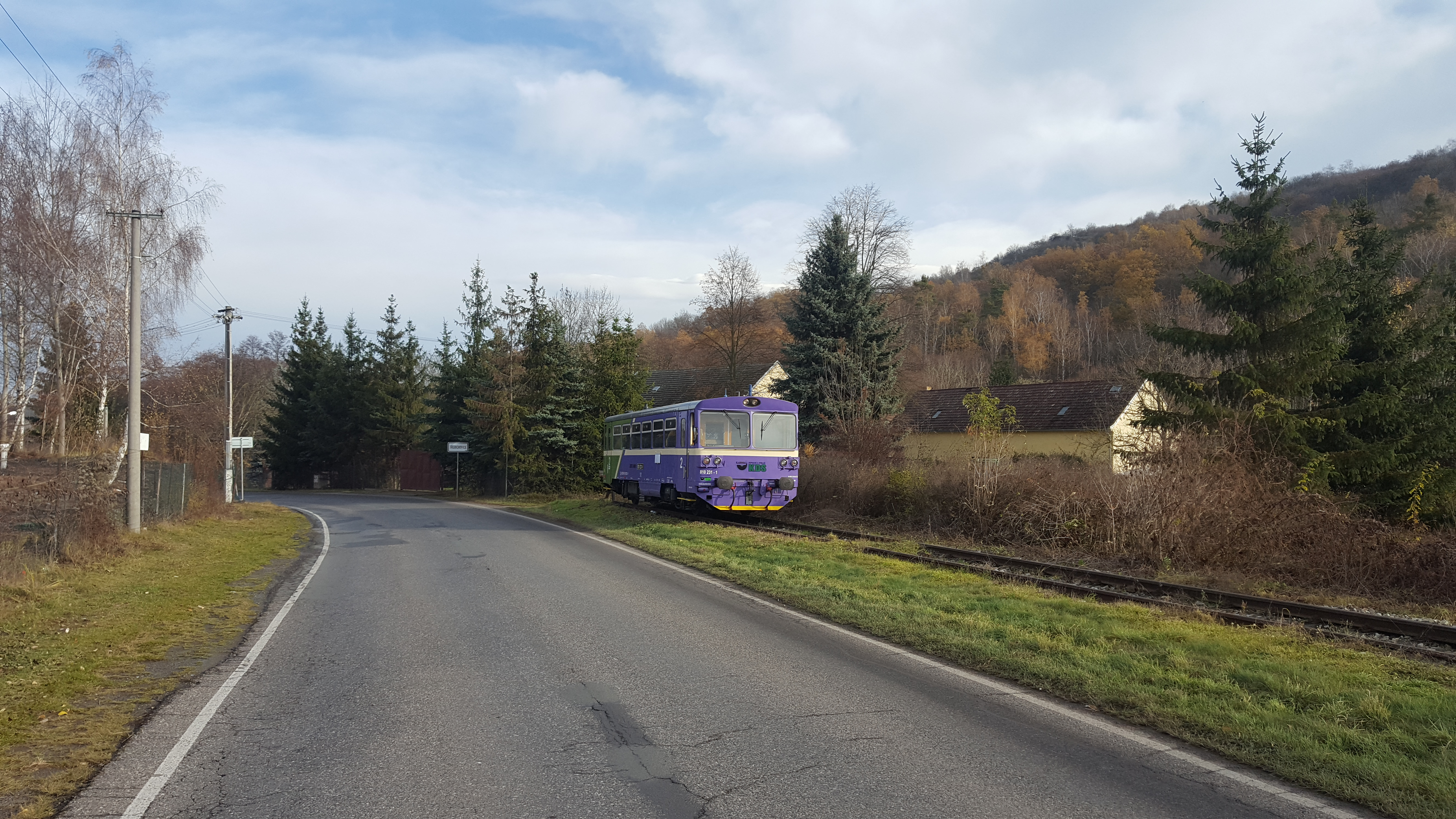 Diesel railcar 810 231-1 of KDS outside Třebichovice at the end of the remaining part of the former route from Zvoleněves to Kladno-Dubí, during a railfan tour.